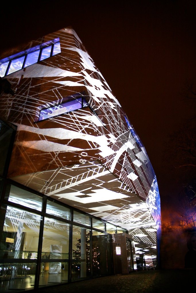 Ingo Bracke: VERSUS IN F: light as a score - a sound architecture. Light installation at the Bach House in Eisenach, 13.12.2008